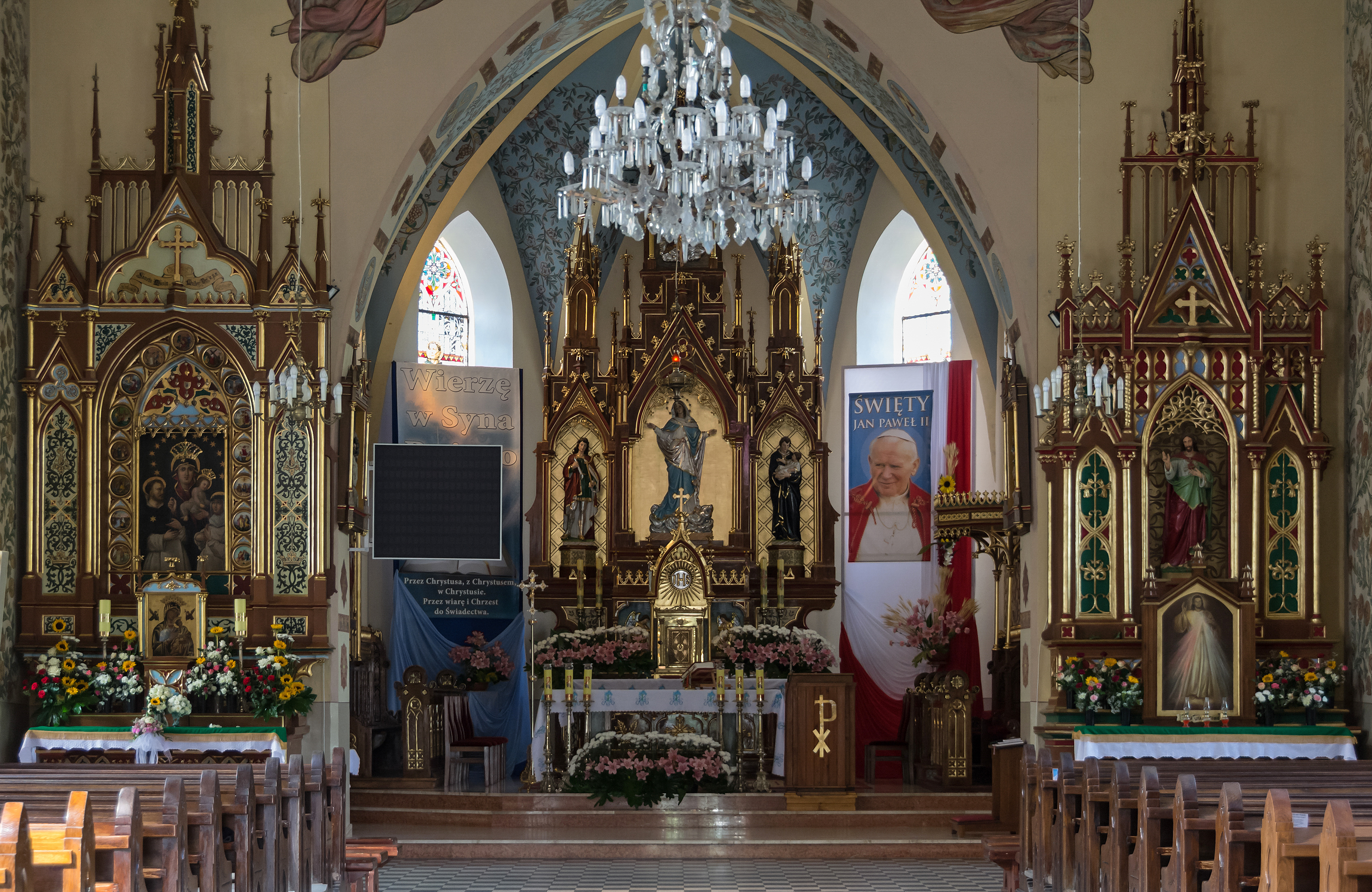 Church of the Assumption in Przecław, altars